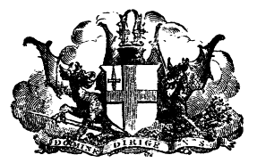 THE TRAVELS AND SURPRISING ADVENTURES OF Baron Munchausen ILLUSTRATED WITH THIRTY-SEVEN CURIOUS ENGRAVINGS FROM THE BARON'S OWN DESIGNS AND FIVE ILLUSTRATIONS By G. CRUIKSHANK By BARON MUNCHAUSEN. London: Printed for C. & G. Kearsley, Fleet Street, 1793.""